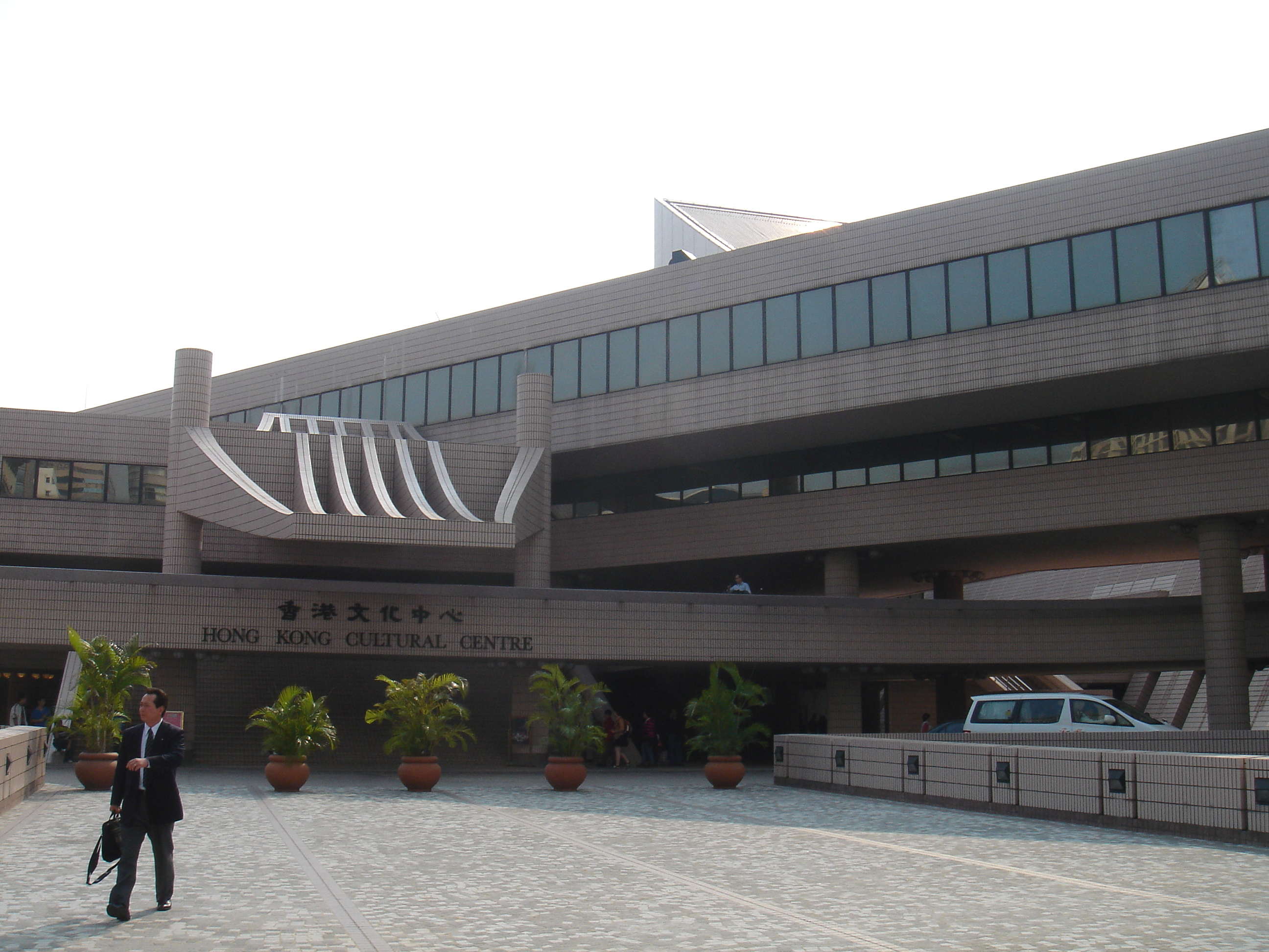 Entrance of Hong Kong Cultural Centre, Tsim Sha Tsui, Hong Kong.